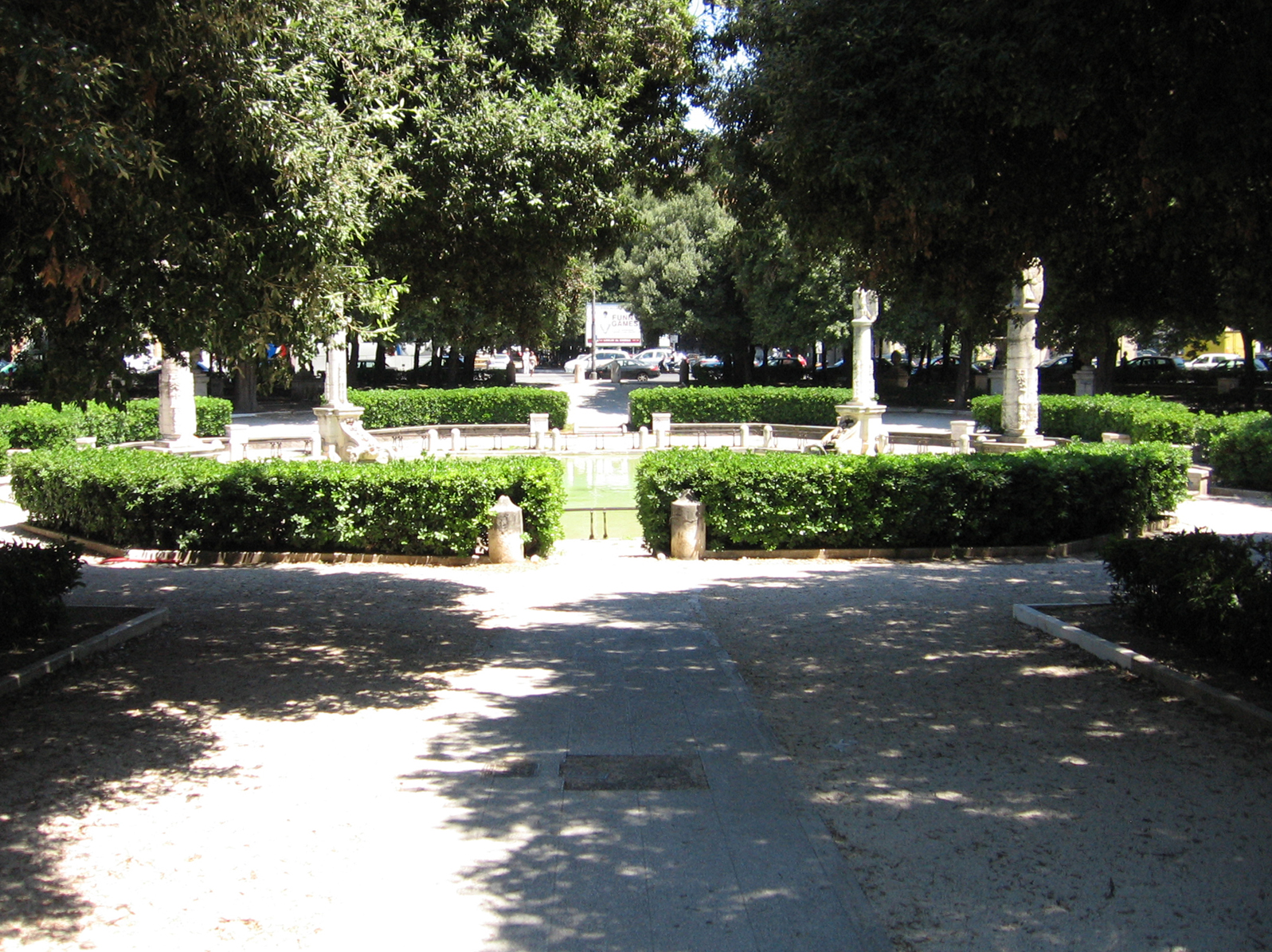 Raffaele de Vico - Fountain and gardens in Piazza Mazzini - Roma